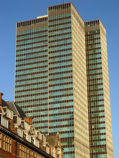 Euston Tower Looking up at this 36-storey office block with the buildings on the western side of Tottenham Court Road in the foreground.